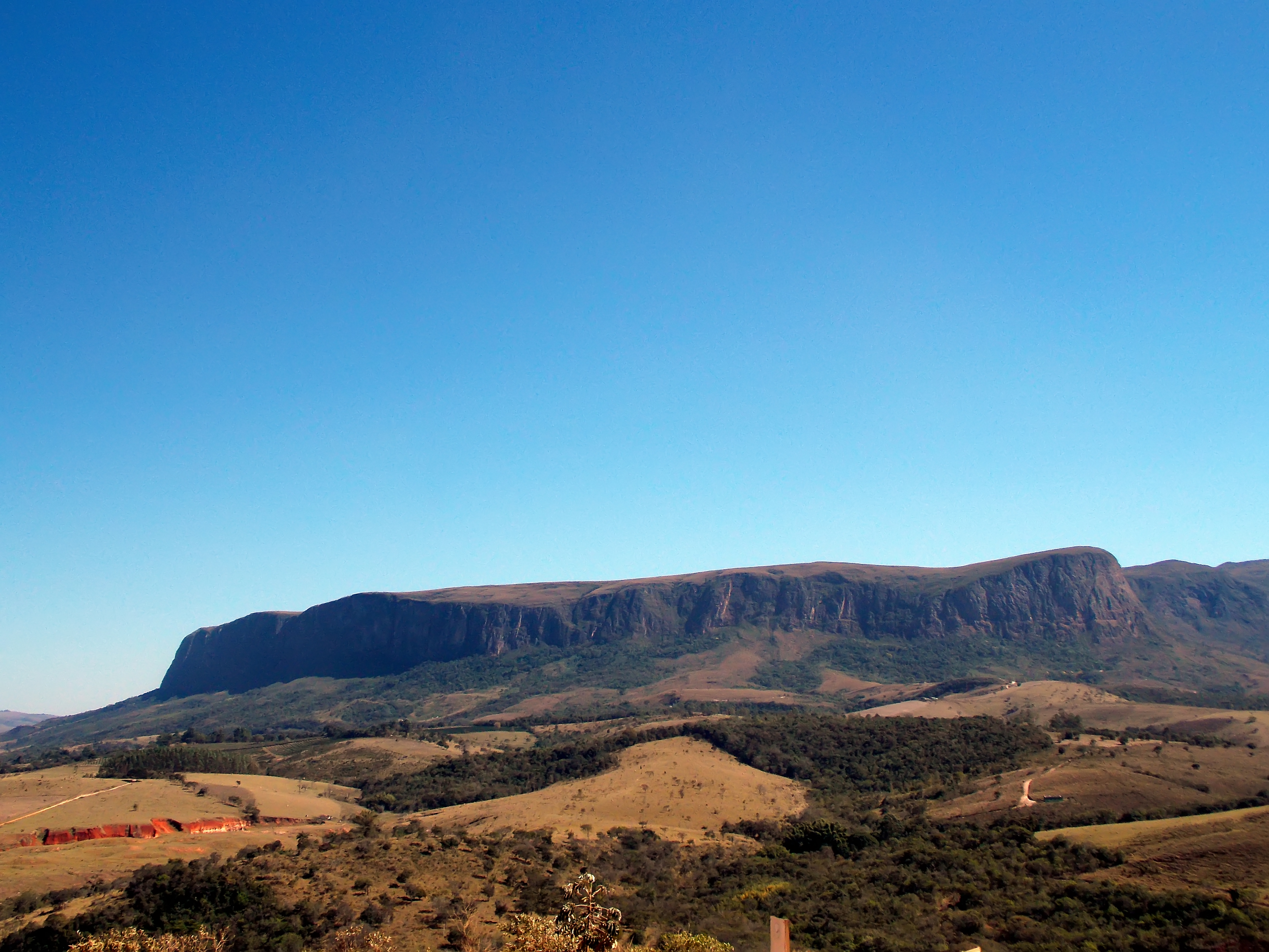 Serra da Canastra - Serra da Canastra National Park / Minas Gerais - Brazil The Serra da Canastra is located in the south-central state of Minas Gerais/Brazil, comprised of large parallel mountain ranges forming the known plateaus, with a predominance of altitude cerrado, the landscape stretches over long horizons composing the Serra da Canastra National Park. The main of these formations is the birthplace of the Velho Chico (Rio San Franscisco).